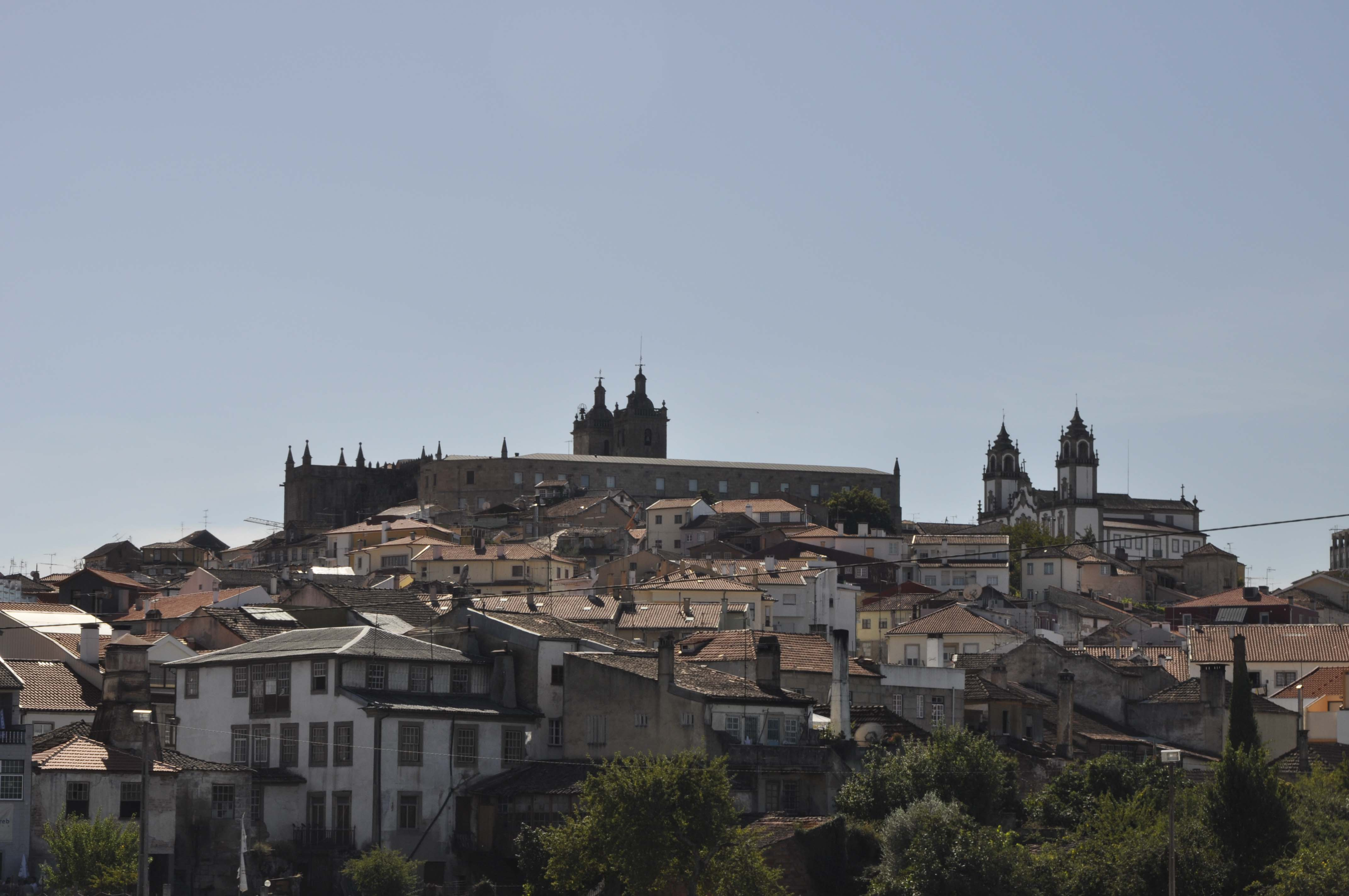 Centre of Viseu